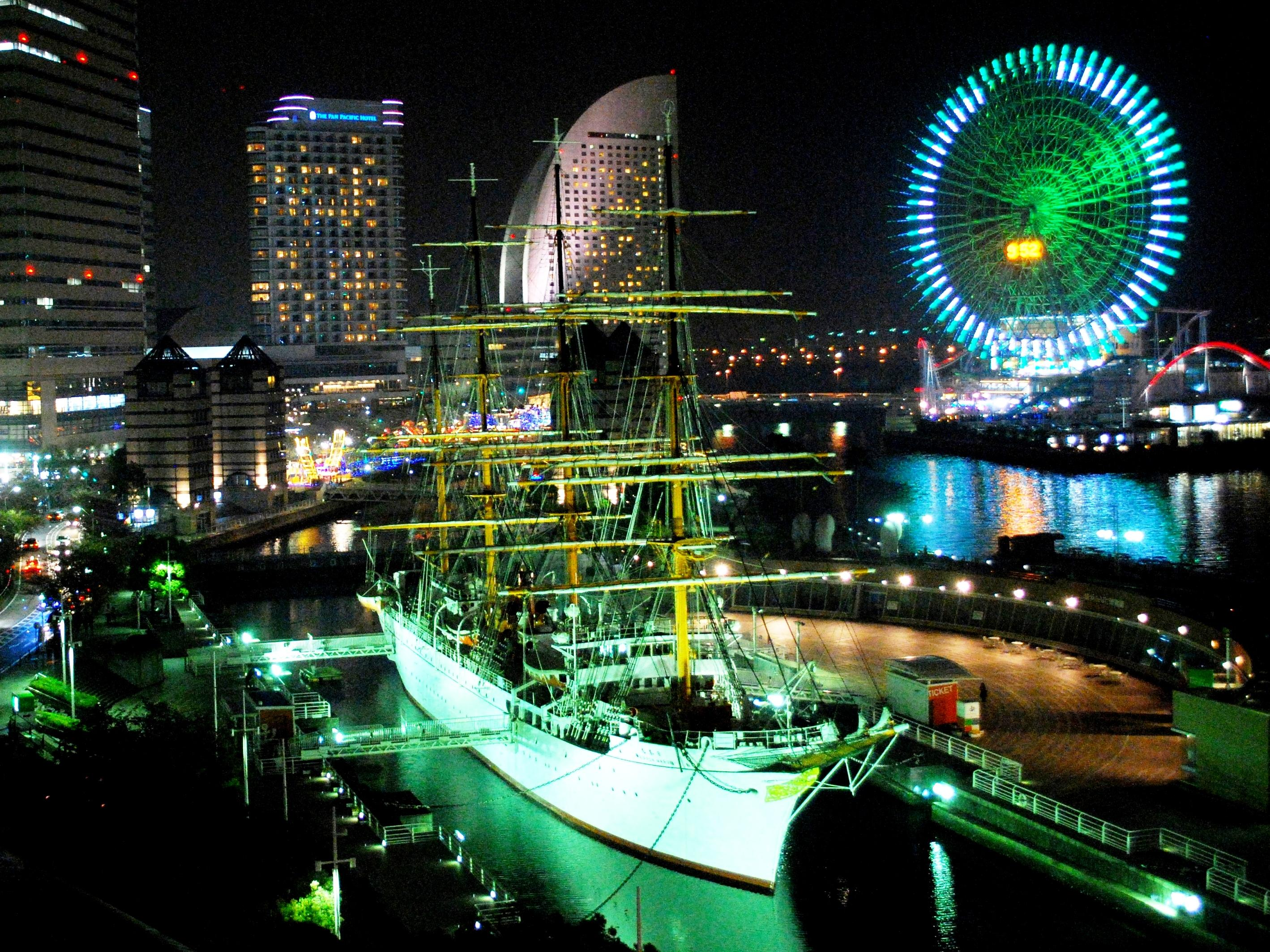 Nippon Maru memorial park night view